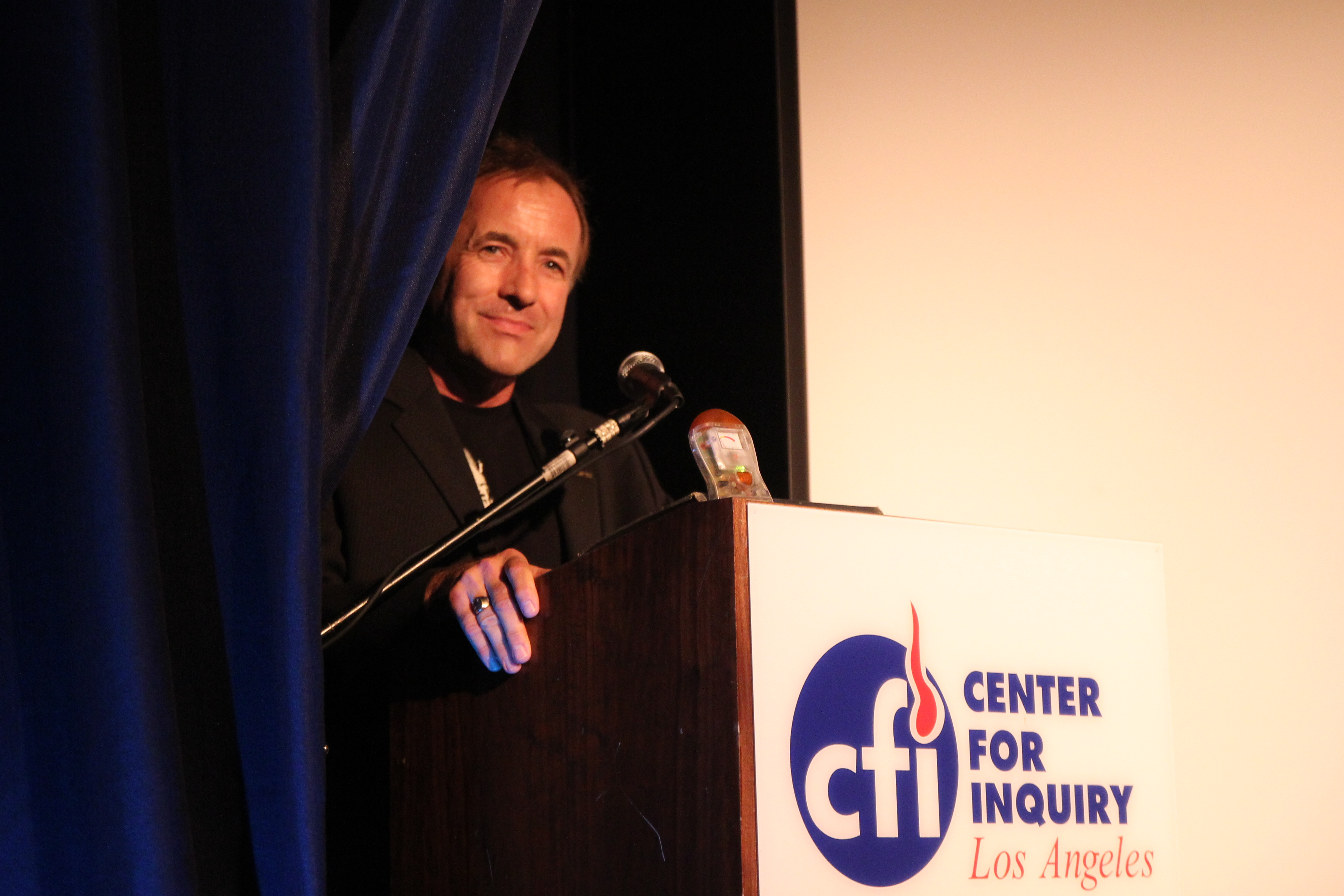 Dr. Michael Shermer receives an award for his work with Skeptic Magazine. IIG 10th Anniversary Awards, CFI Headquarters, Hollywood